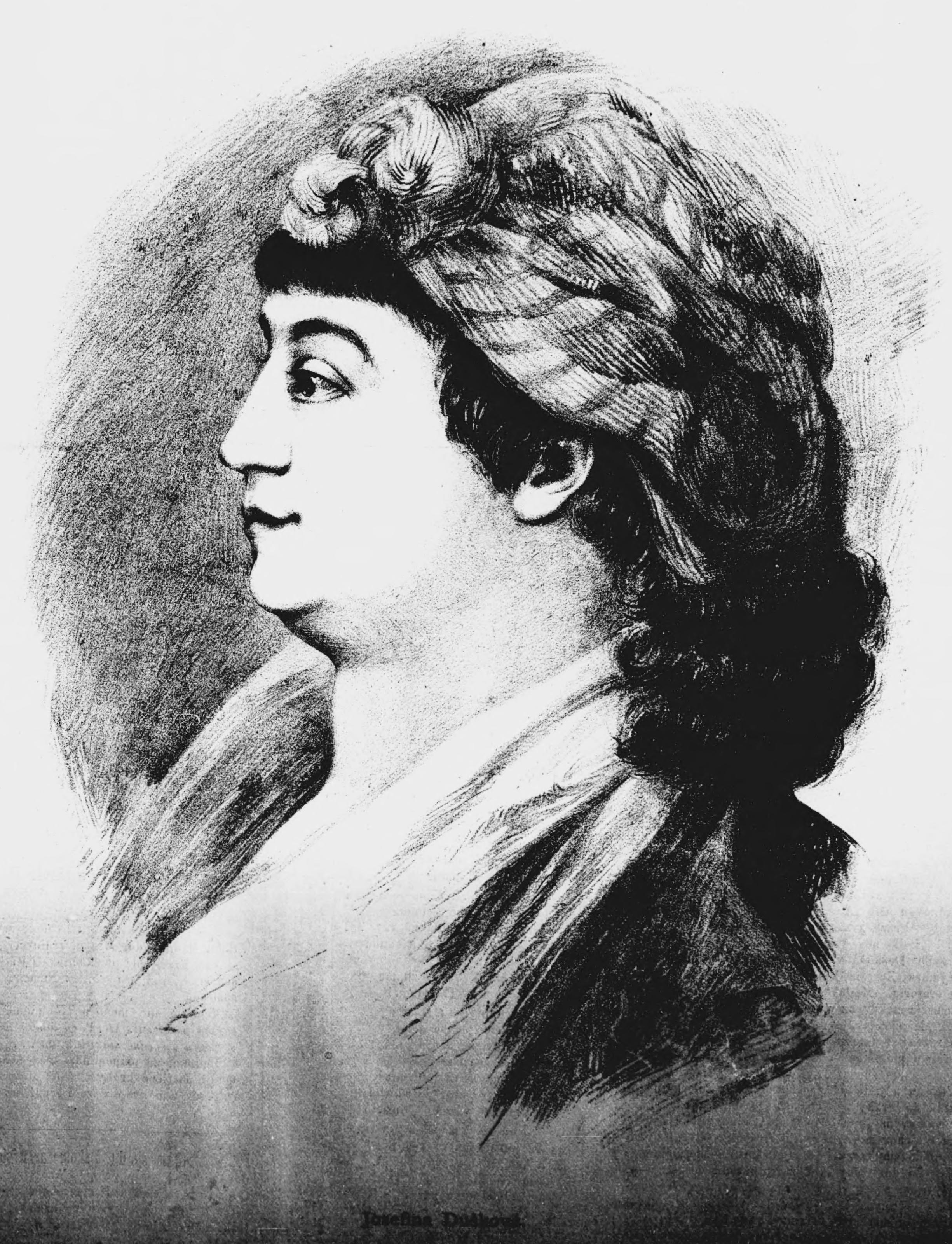 Portrait of Josepha Duschek (Czech: Josefína Dušková, 1754-1824), Czech opera singer and friend of W. A. Mozart.